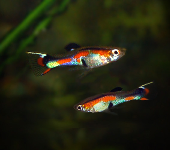 poecilia wingei (endler, endlers livebearer), strain 2004 Yellow Top Sword